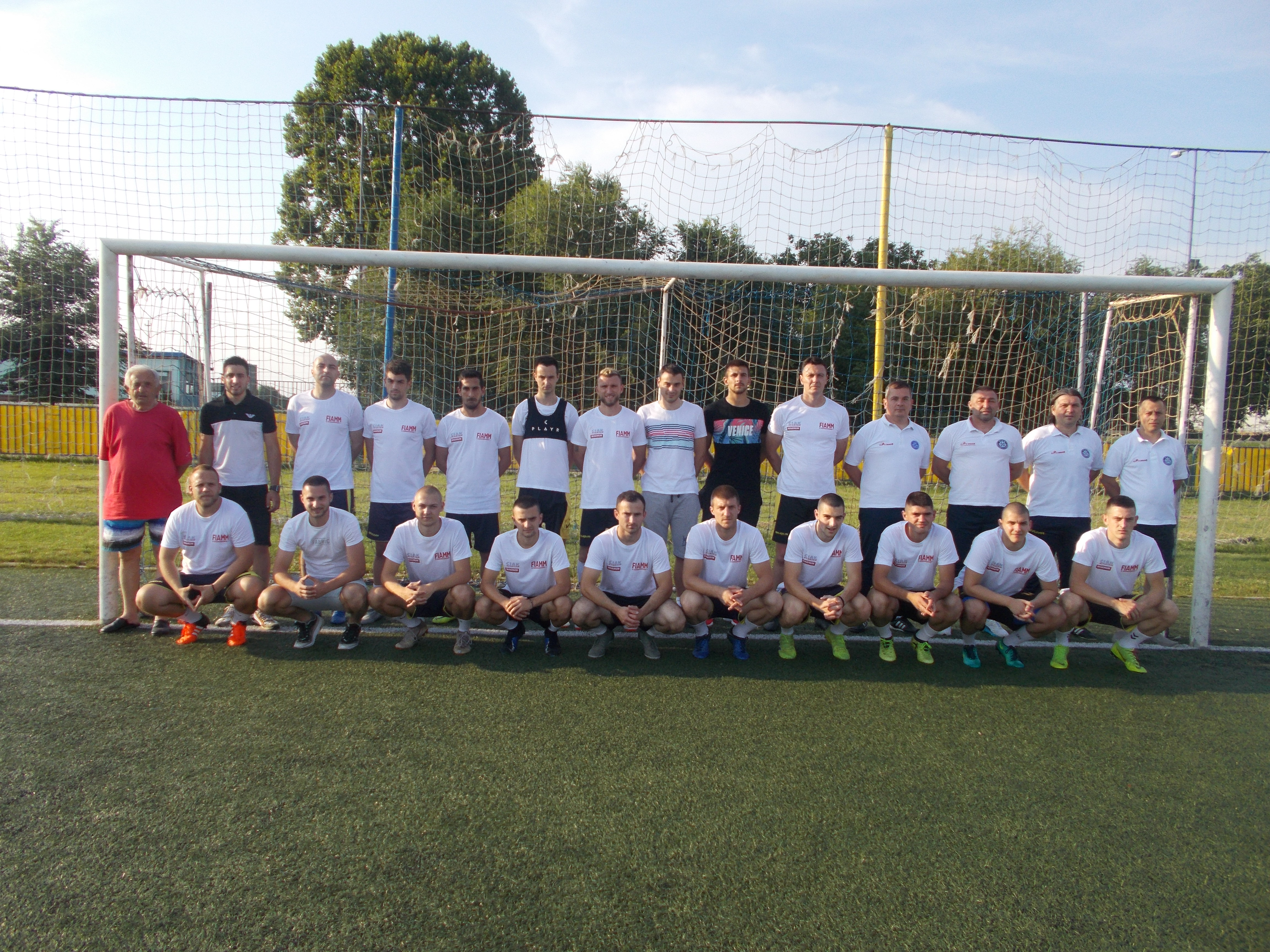 Тим ОФК Стари Град - сезона 2020/21 Српска лига Војводина